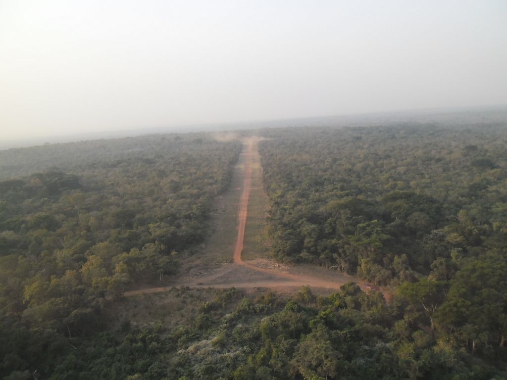 The dirt airfield located south of the town of Djemah, Central African Republic.